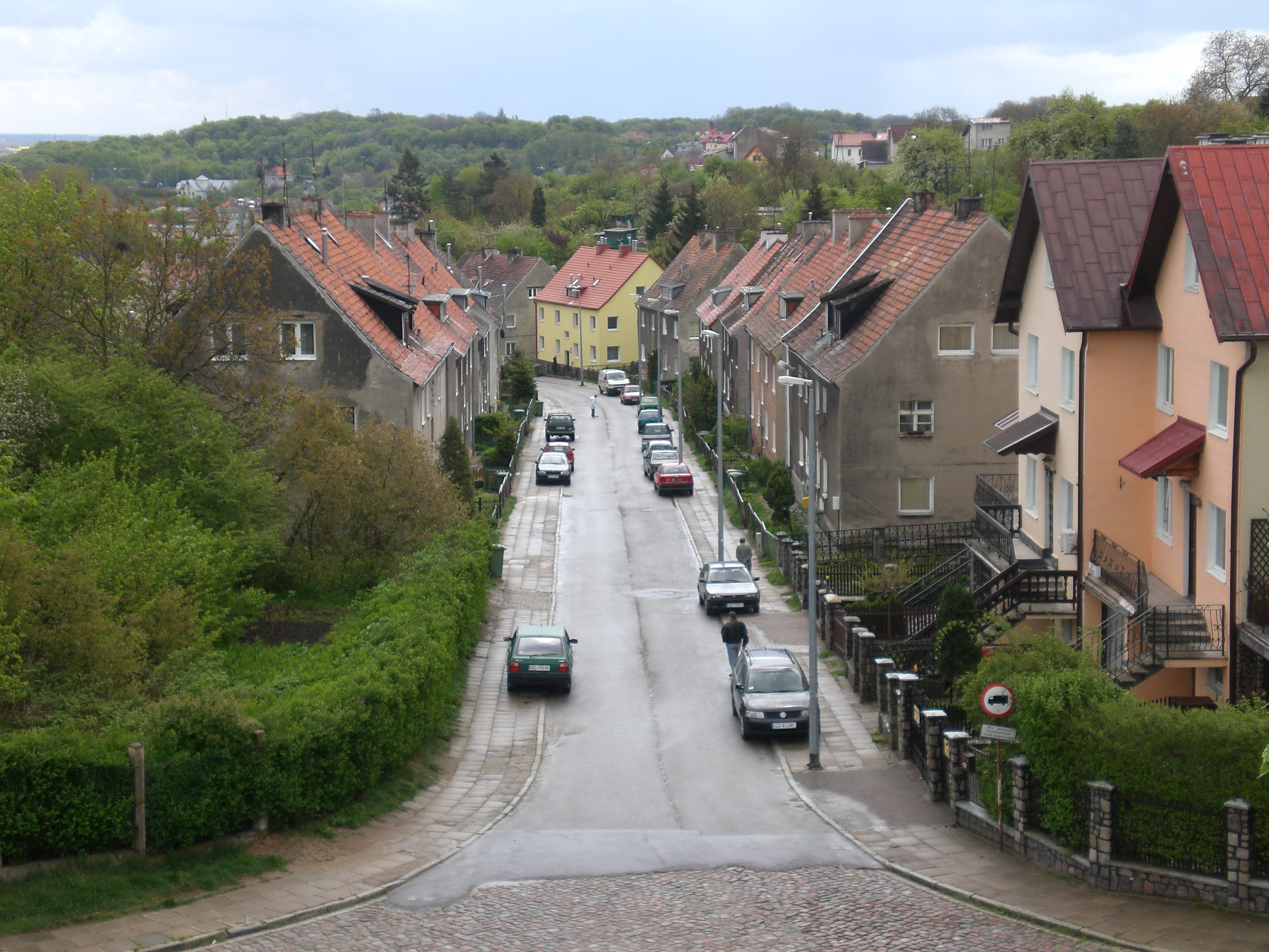 Skarpowa Street in Gdańsk